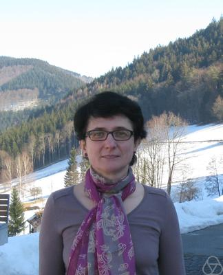 Description at MFO: On the Photo: * Cakoni, Fioralba * Occasion:Inverse Problems for Partial Differential Equations * Location: Oberwolfach * Author: Schmid, Renate (photos provided by Schmid, Renate) * Source: MFO * Year: 2012 * Copyright: MFO * Photo ID: 16075